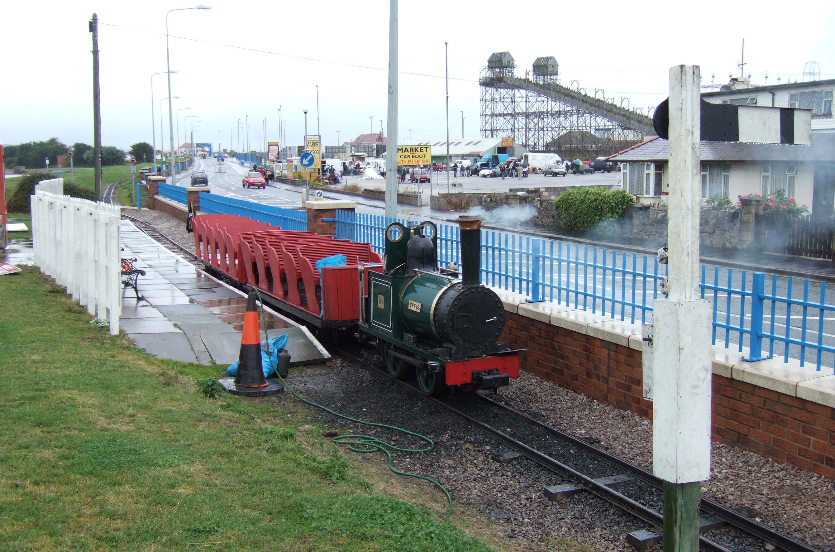 Rhyl Miniature Railway. Visiting Engine 'Effie' at the station (in the rain). 13th August 2005 Photographer - A.M.Hurrell Camera - Fuji FinePix F10 Modified - Trimmed and file size reduced using Finepix Software